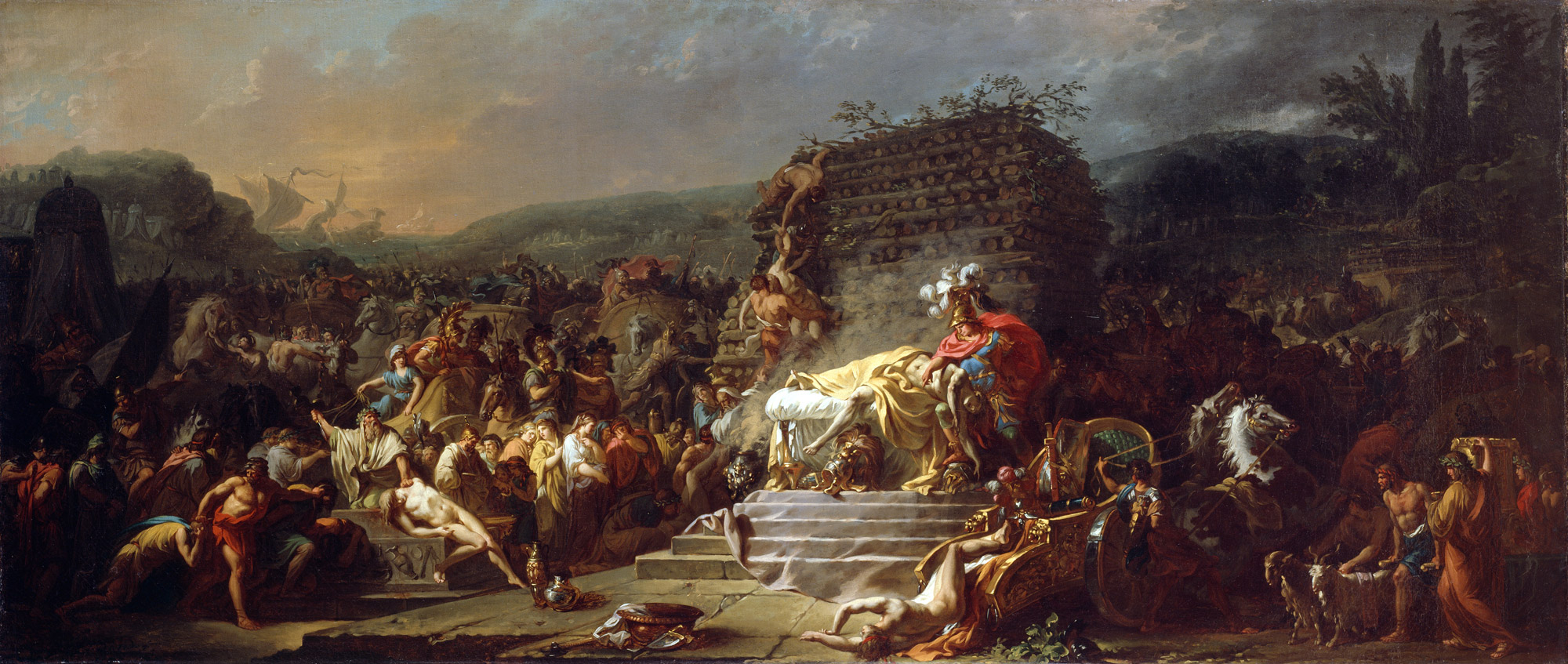 The Funerals of Patrocle, oil on canvas